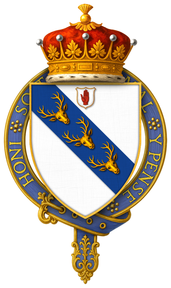 Shield of arms of Edward Smith-Stanley, 14th Earl of Derby, as displayed on his Order of the Garter stall plate in St. George's Chapel.